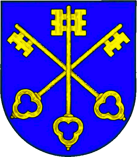 Coat of arms of the former Amt (county) Neustadt-Land in Schleswig-Holstein, Germany.